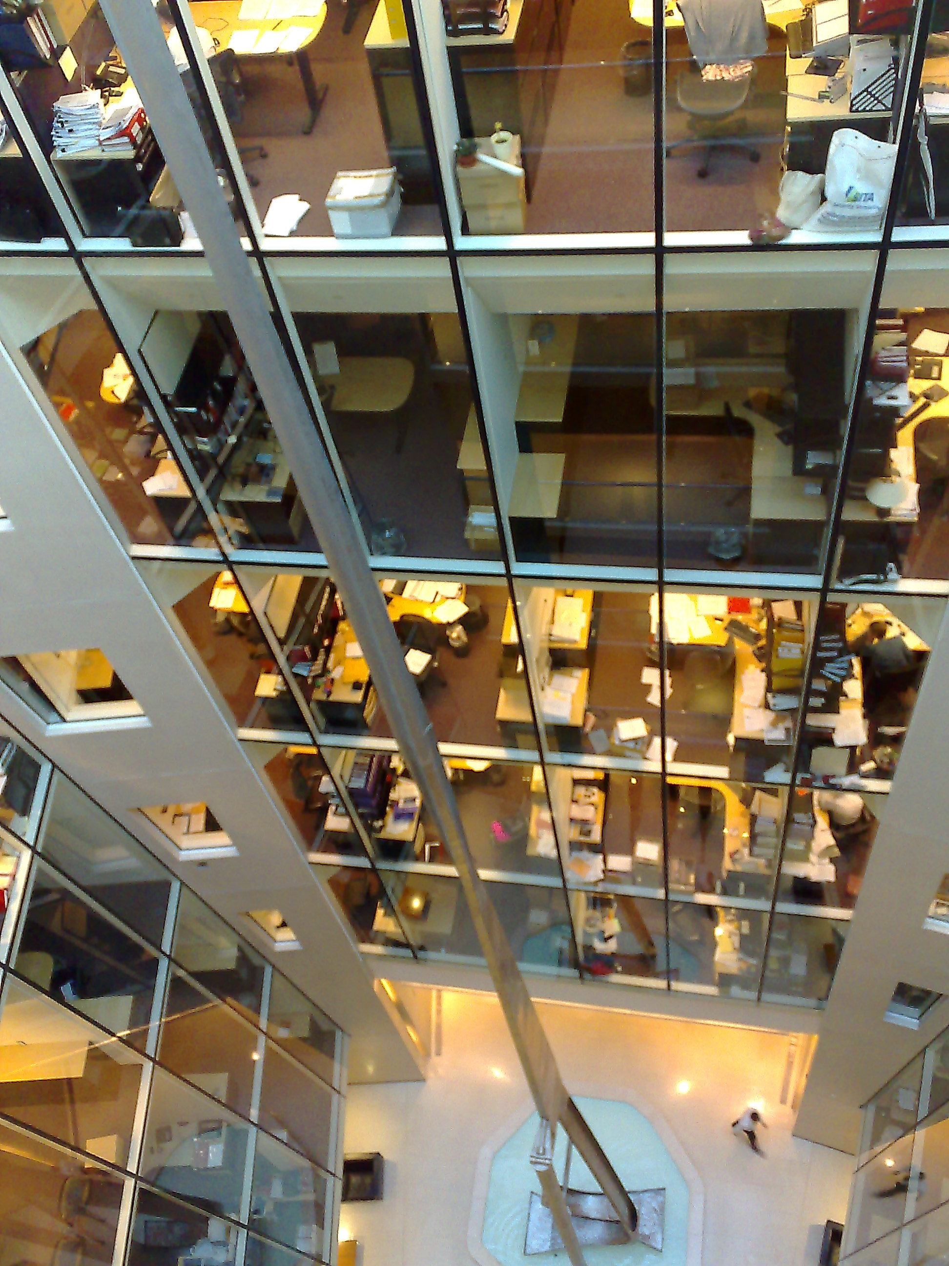 The London office of Lovells in 2008, shortly before the merger with Hogan & Hartson. Downloads from Flickr rotated, for some reason.